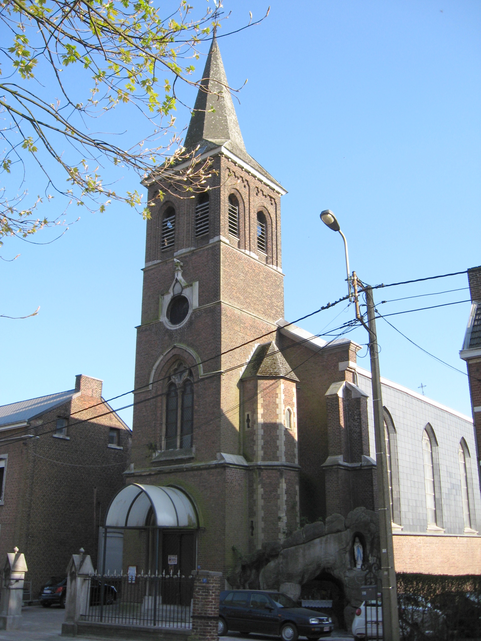 Church of Saint Lambert in Voroux-Goreux, Fexhe-le-Haut-Clocher, Liège, Belgium